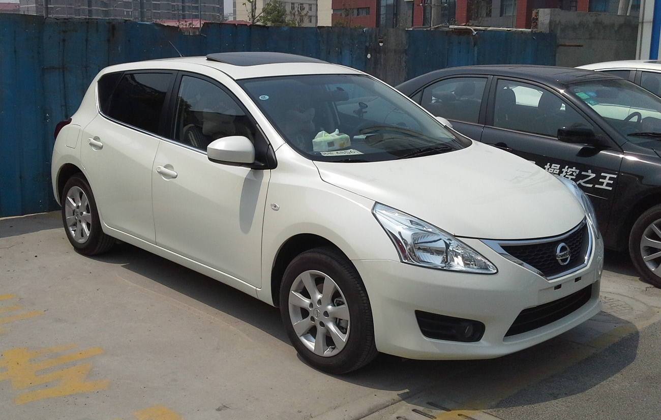 Nissan Tiida C12 photographed in Shanghai, China.